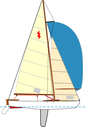 A drawn picture of a Lightning class, a 19 foot sloop, made by Jimmy P. Renzi, Rome, Italy.